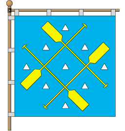 Lotsmanskaya Kamenka village flag